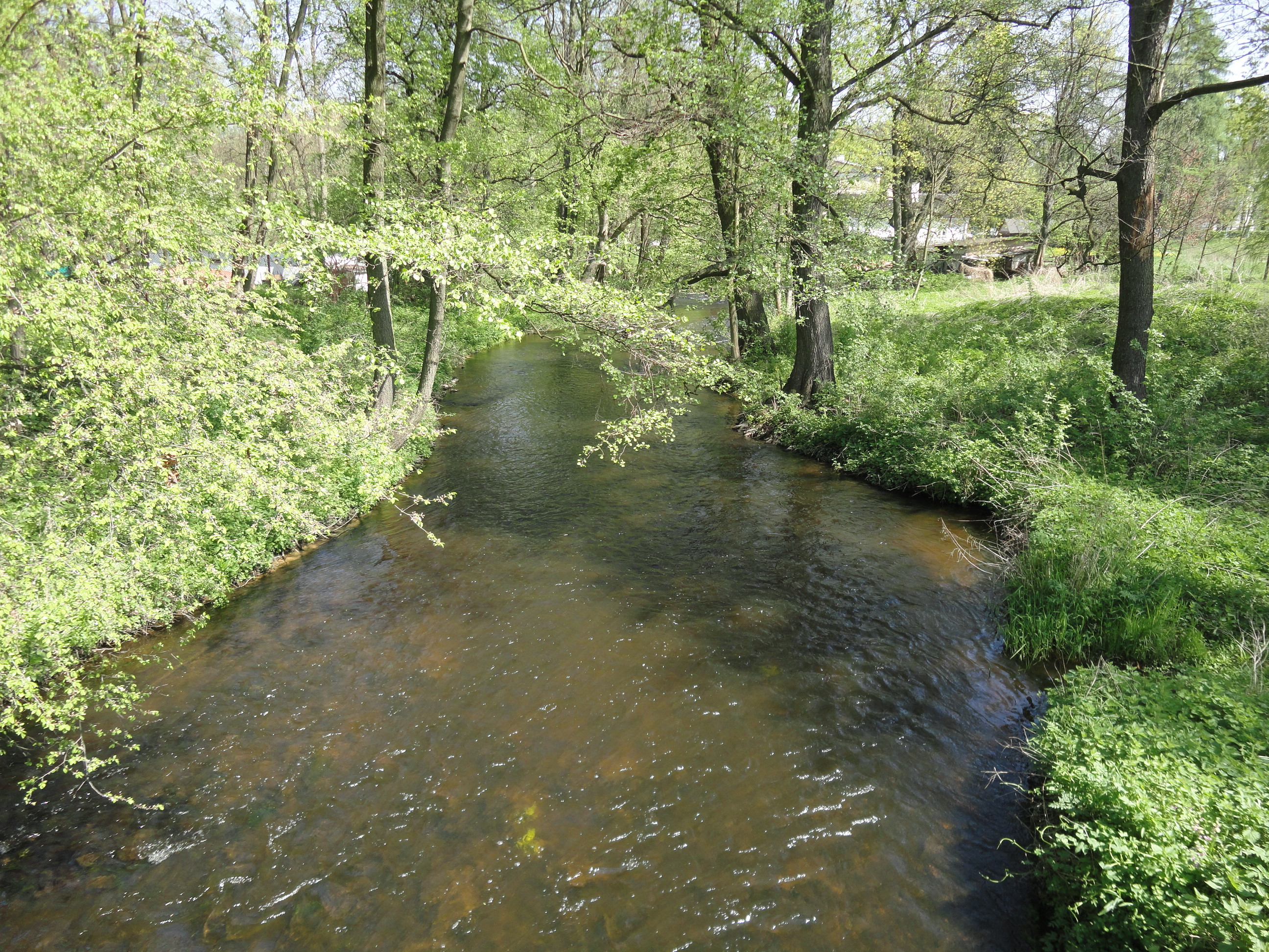 Southern Skrwa river in Lucień.